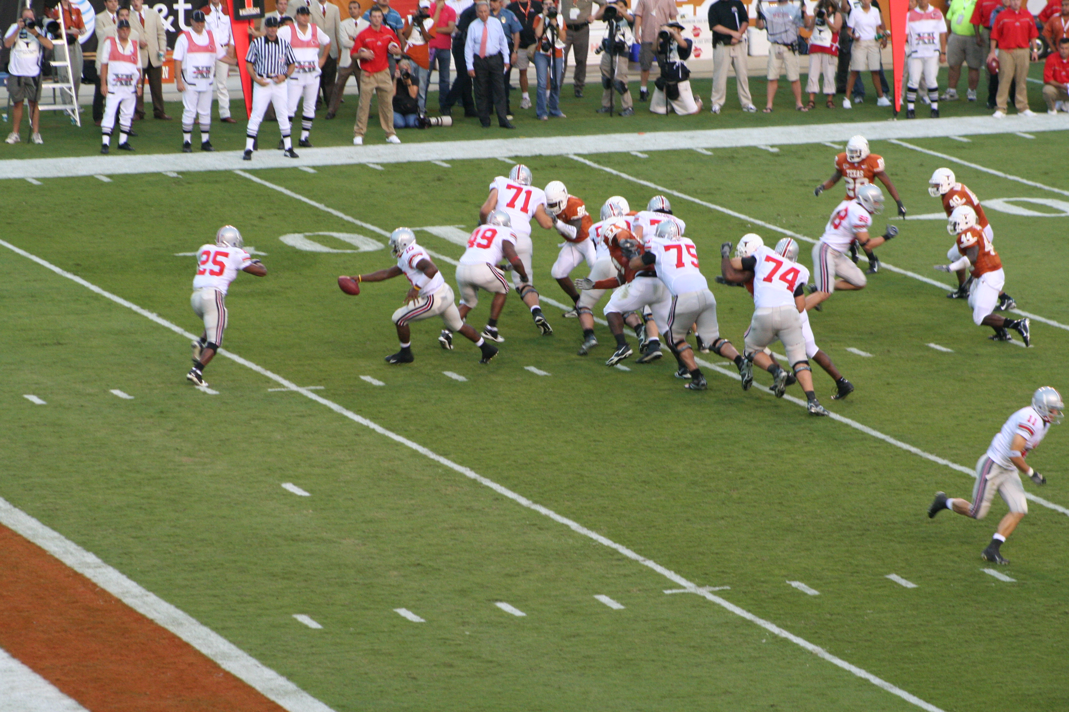 College football game - Ohio State University vs University of Texas at Austin - OSU quarterback Troy Smith hands off to Antonio Pitman.